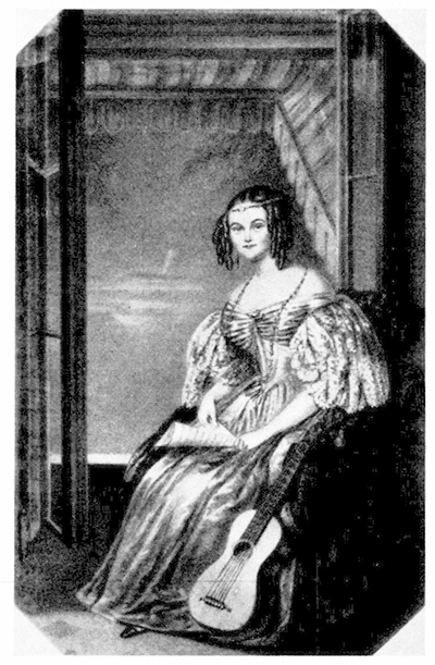 Christina Wilhelmina Enbom (1804-1888)